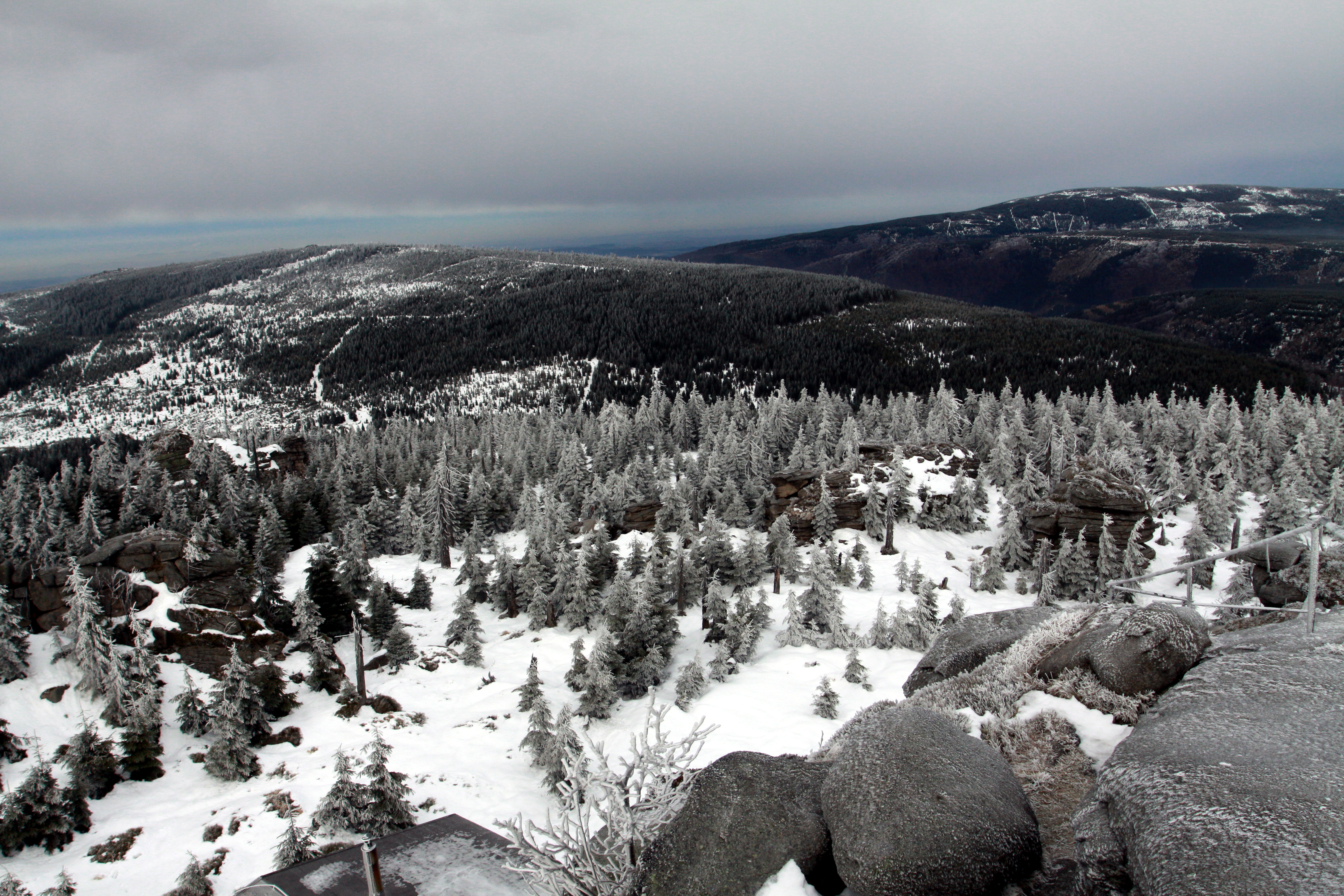 Nature reserve Prales Jizery in winter 2013/2014, Liberec District, Czech Republic